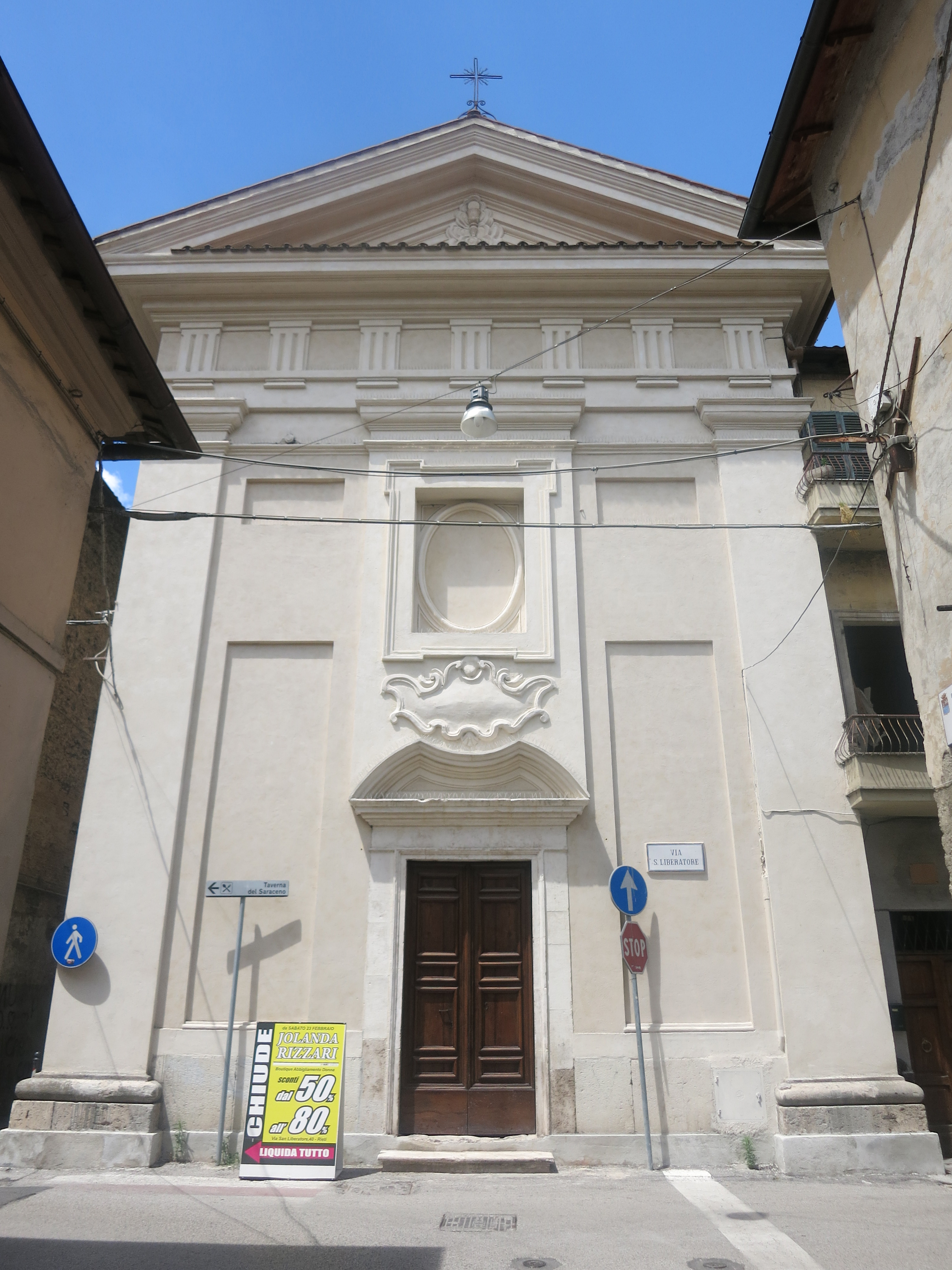 Saint Liberator Church (Rieti, Lazio, Italy)